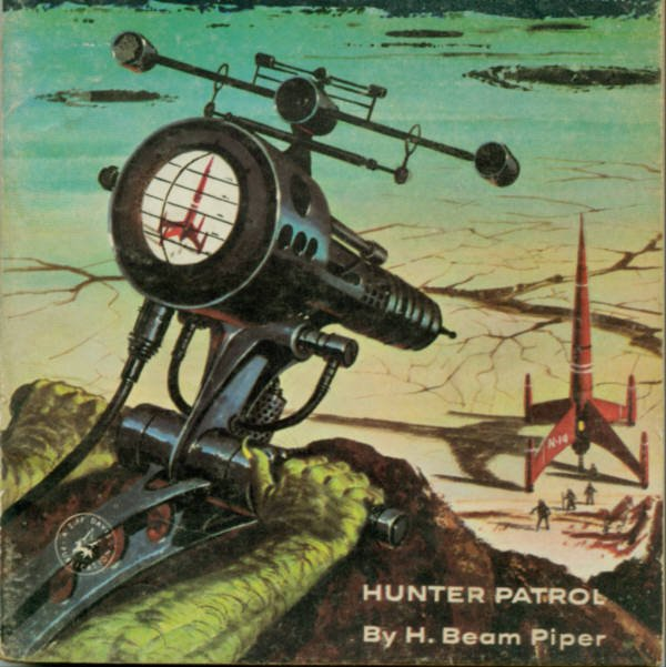 Cover of Hunter Patrol by H. Beam Piper McGuire H. Beam Piper